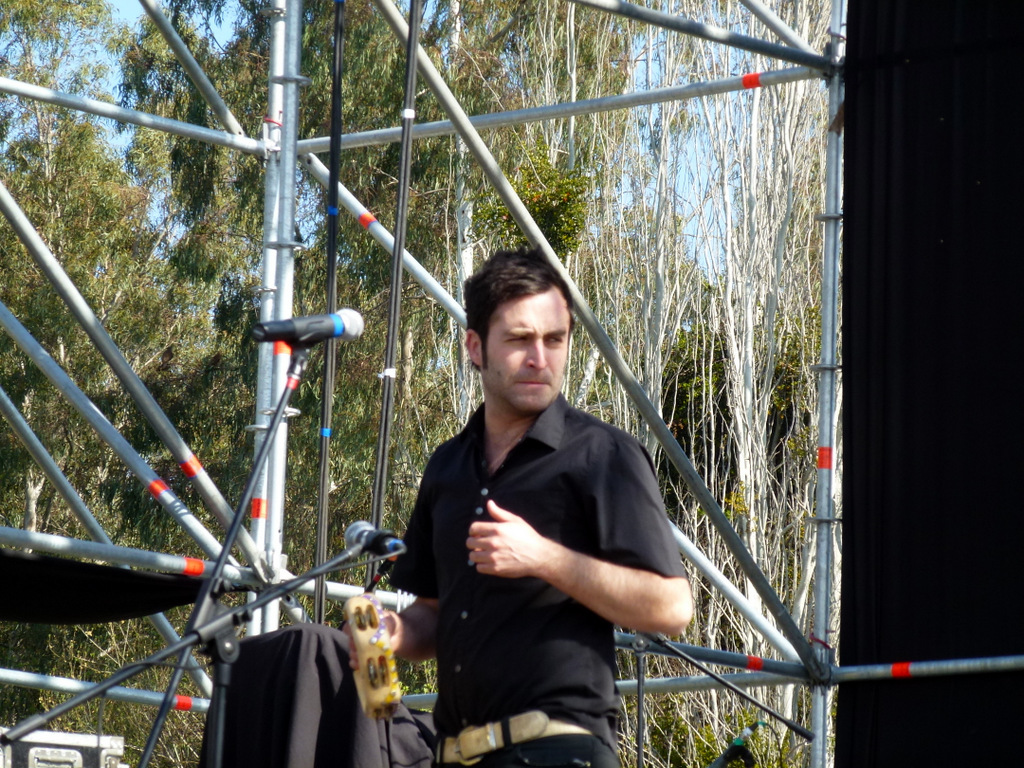 Chilean actor Nicolás Poblete with his musical group "Los Piolas del Lote".